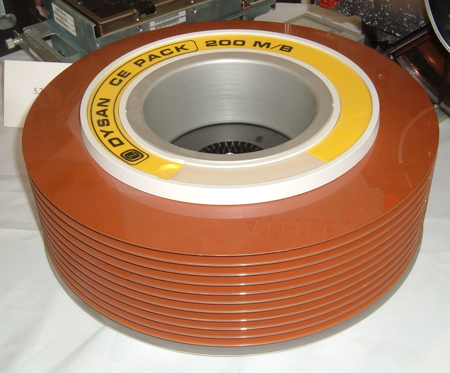 Dysan removable CE disk pack from 1970s (est), with 200 megabyte capacity. The protective carrying cover has been removed. Disk diameter is 14 inches (356 mm). CE "yellow" disk packs (as the colour of the upper ring) were used, together with CE-Box and oscilloscope, by field technicians to do some adjustments on drives, e. g. head alignment, seek speed.